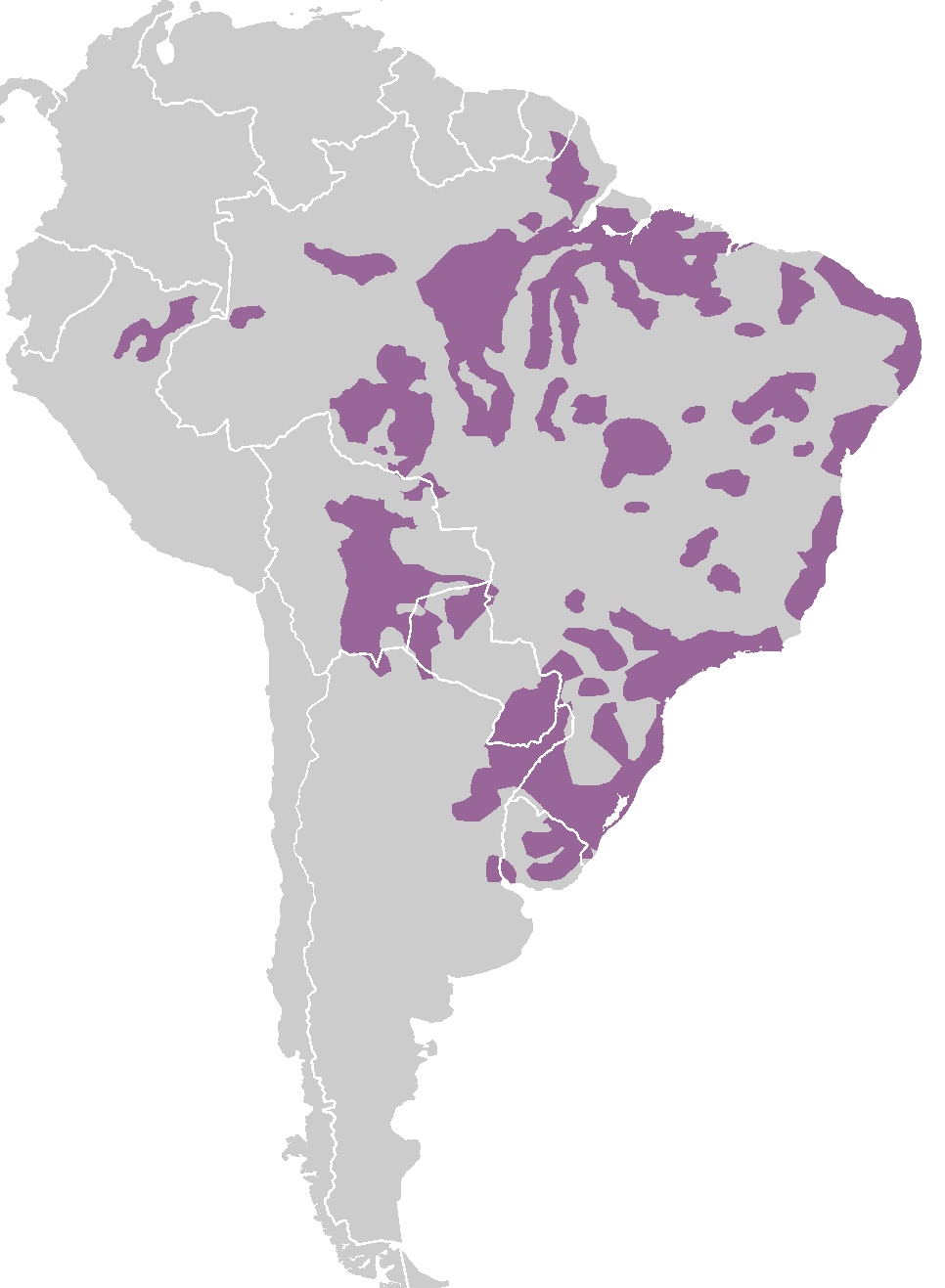 Tupian languages after, Nicholas Ostler (2005): Empires of the World: A Language History of the World, p. 362